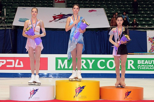 The ladie's podium at the 2010-2011 Grand Prix Final. From left: Carolina Kostner (2nd), Alissa Czisny (1st), Kanako Murakami (3rd).